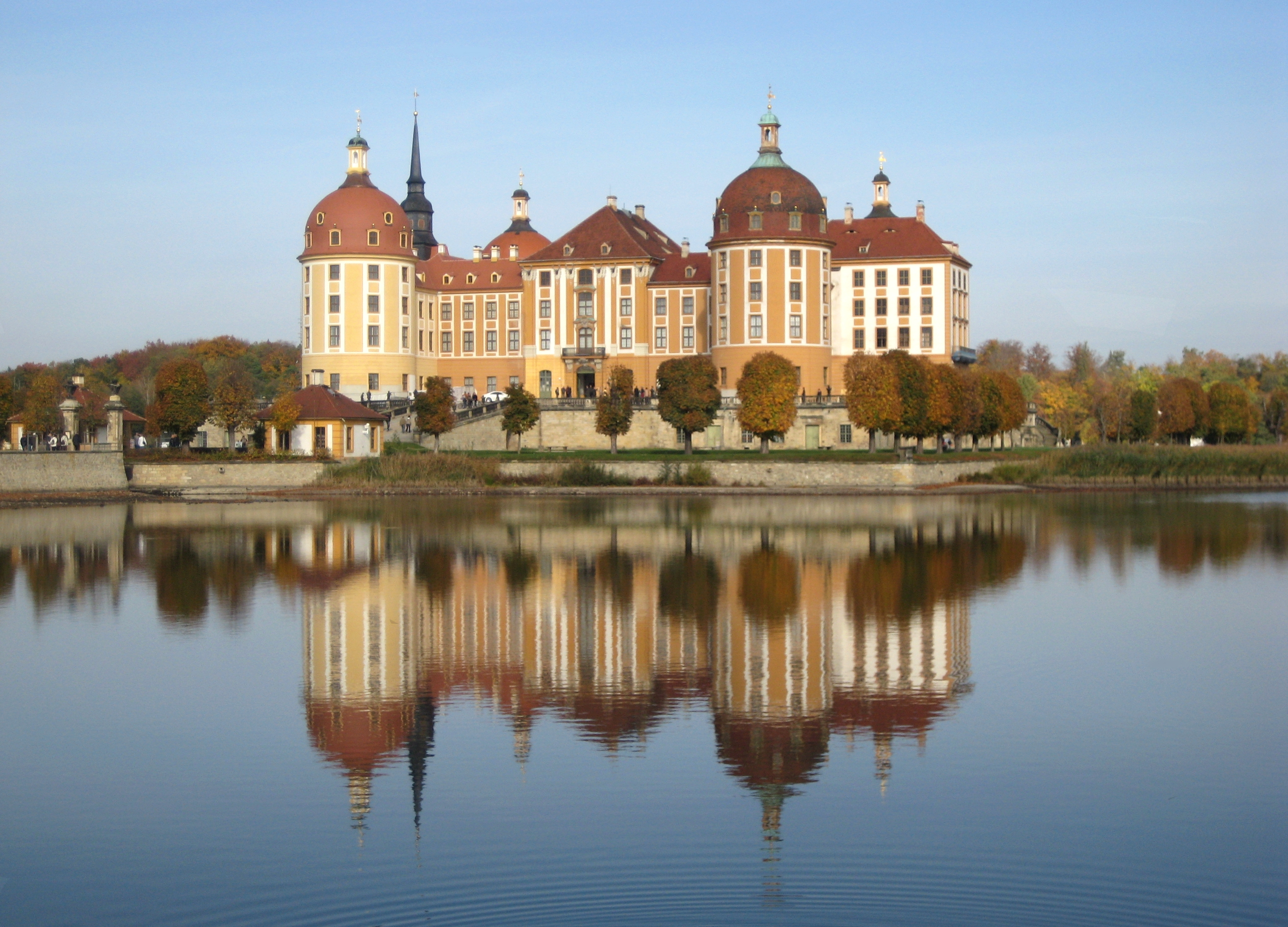 Schloss Moritzburg, view from south-east